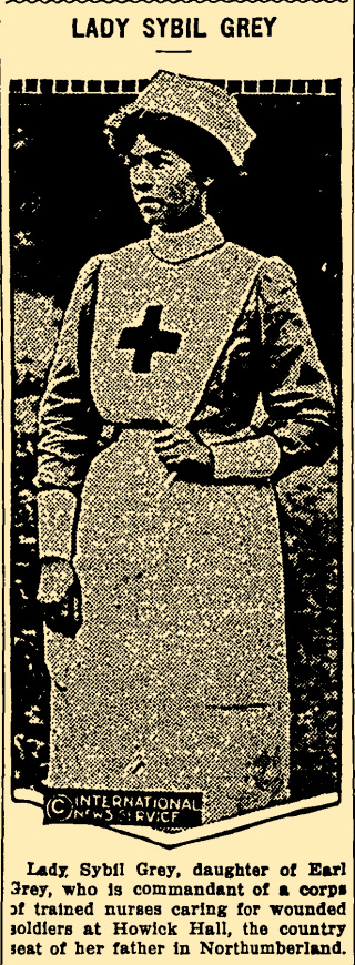 Lady Sybil Grey